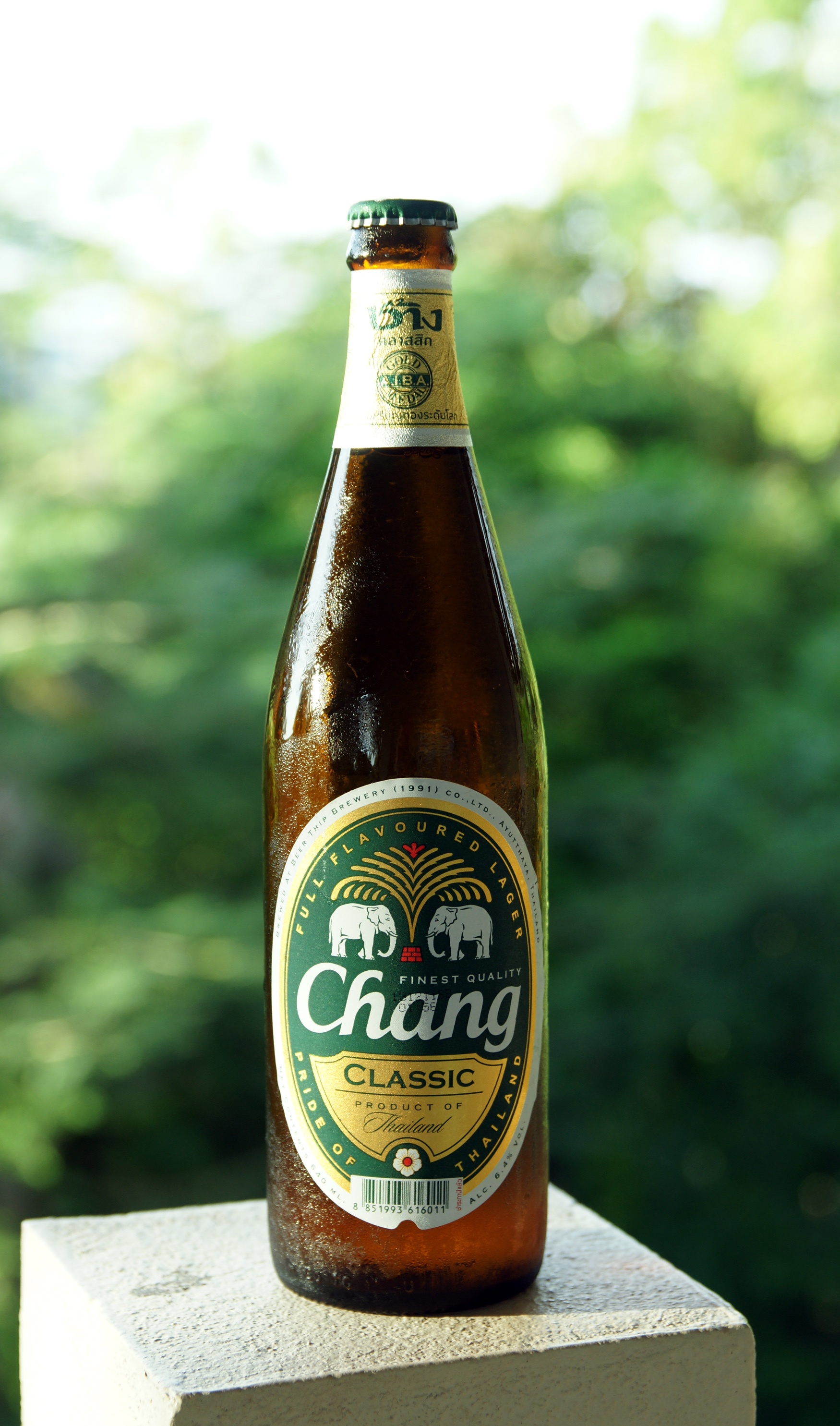 A bottle of Chang beer.